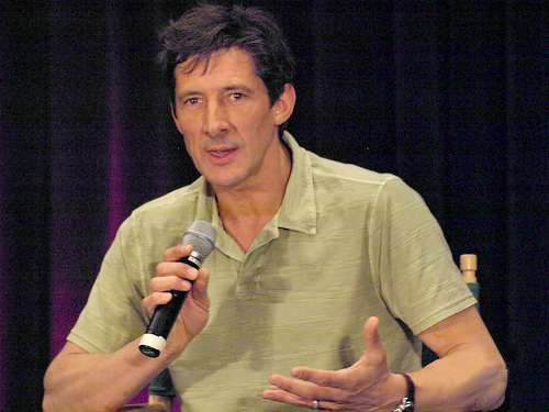 Peter Wingfield in Camp Fort Dearborn, Chigago, 2009